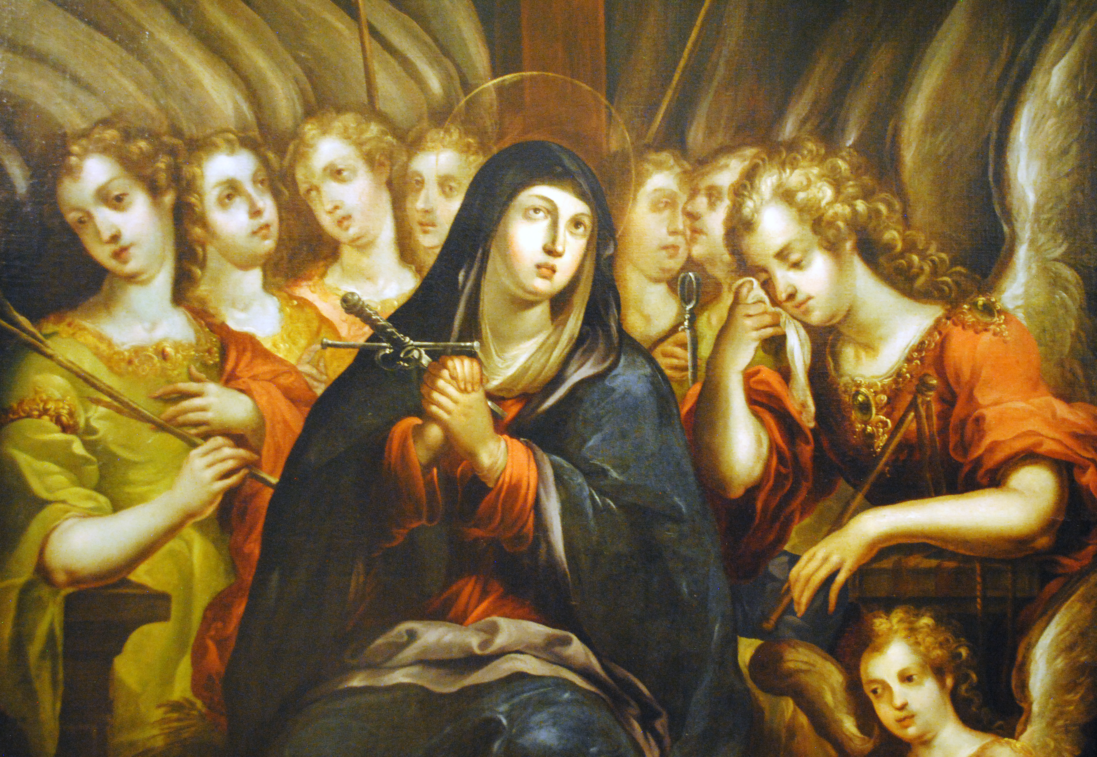 The Sorrowful, Cristóbal de Villalpando. Detail.